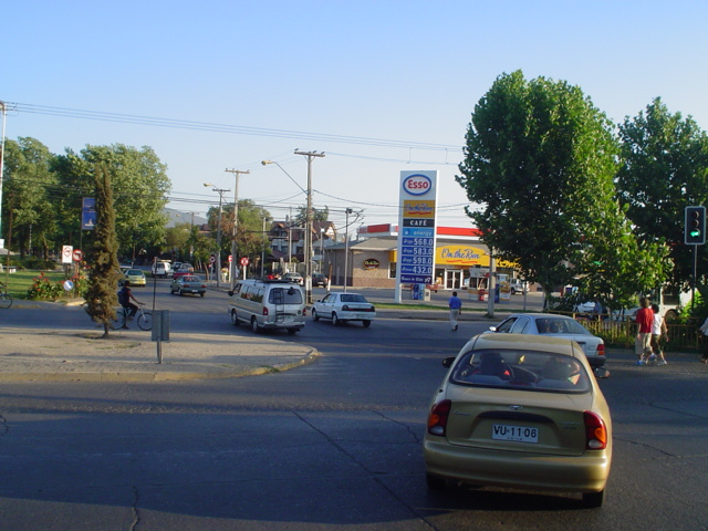 Entering Ciudad Satélite Maipú, a neighborhood located in the municipality of Maipú, in Santiago's Metro area, Chile.